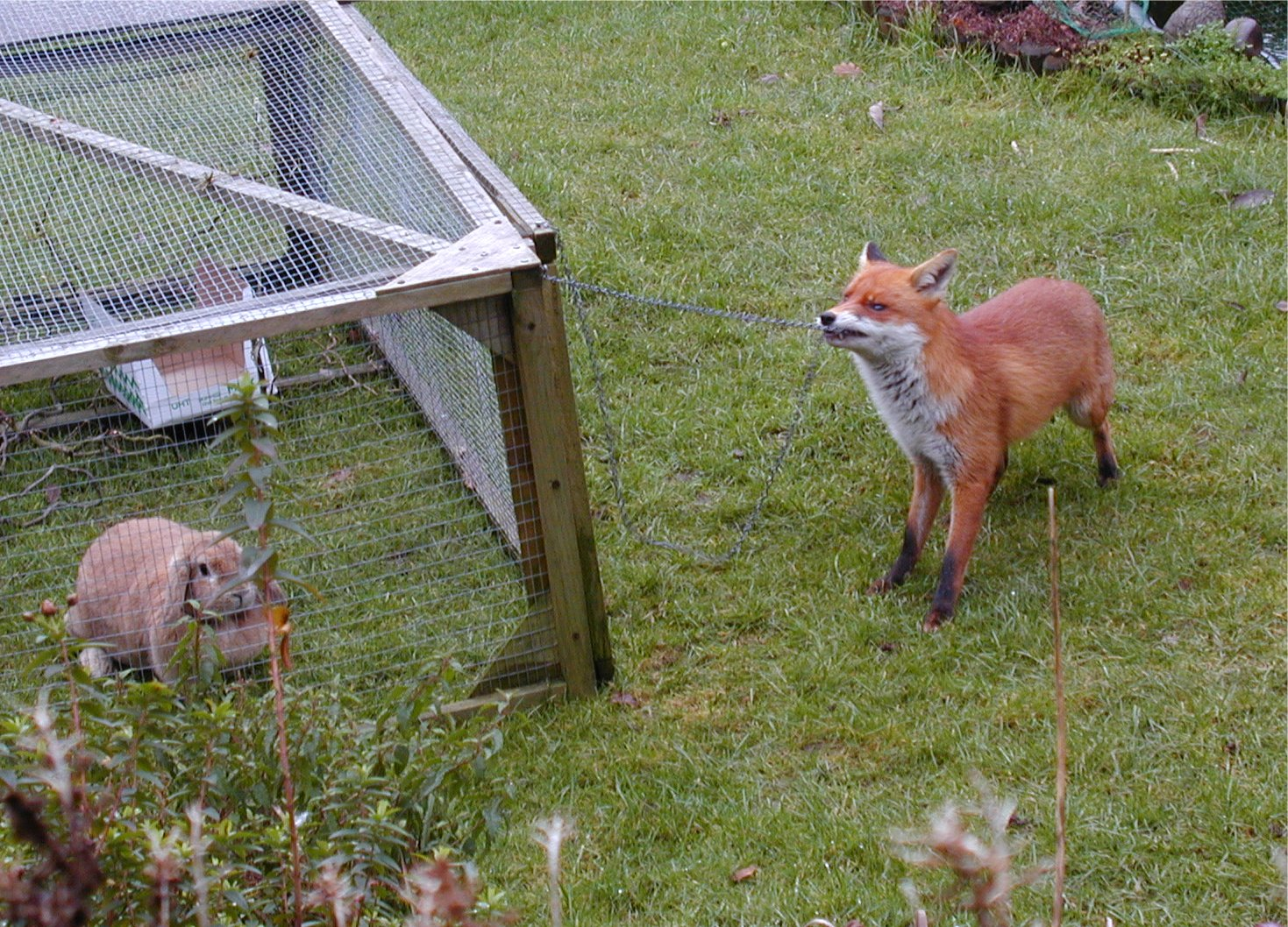 An urban fox investigating a domestic pet rabbit in a garden in Birmingham, UK.